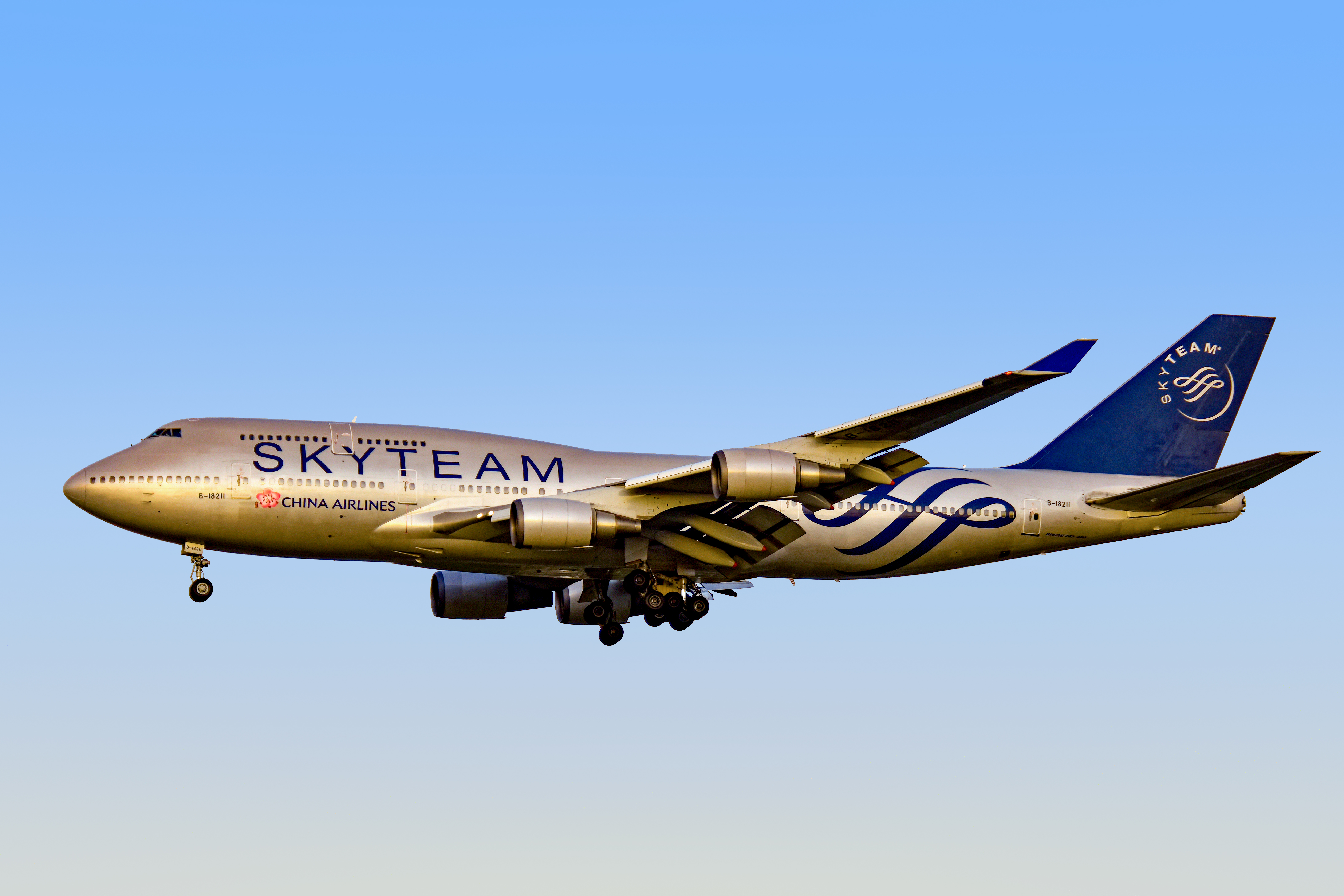 Dynasty 517 from Taipei. In fact, Junes and Julys are better...